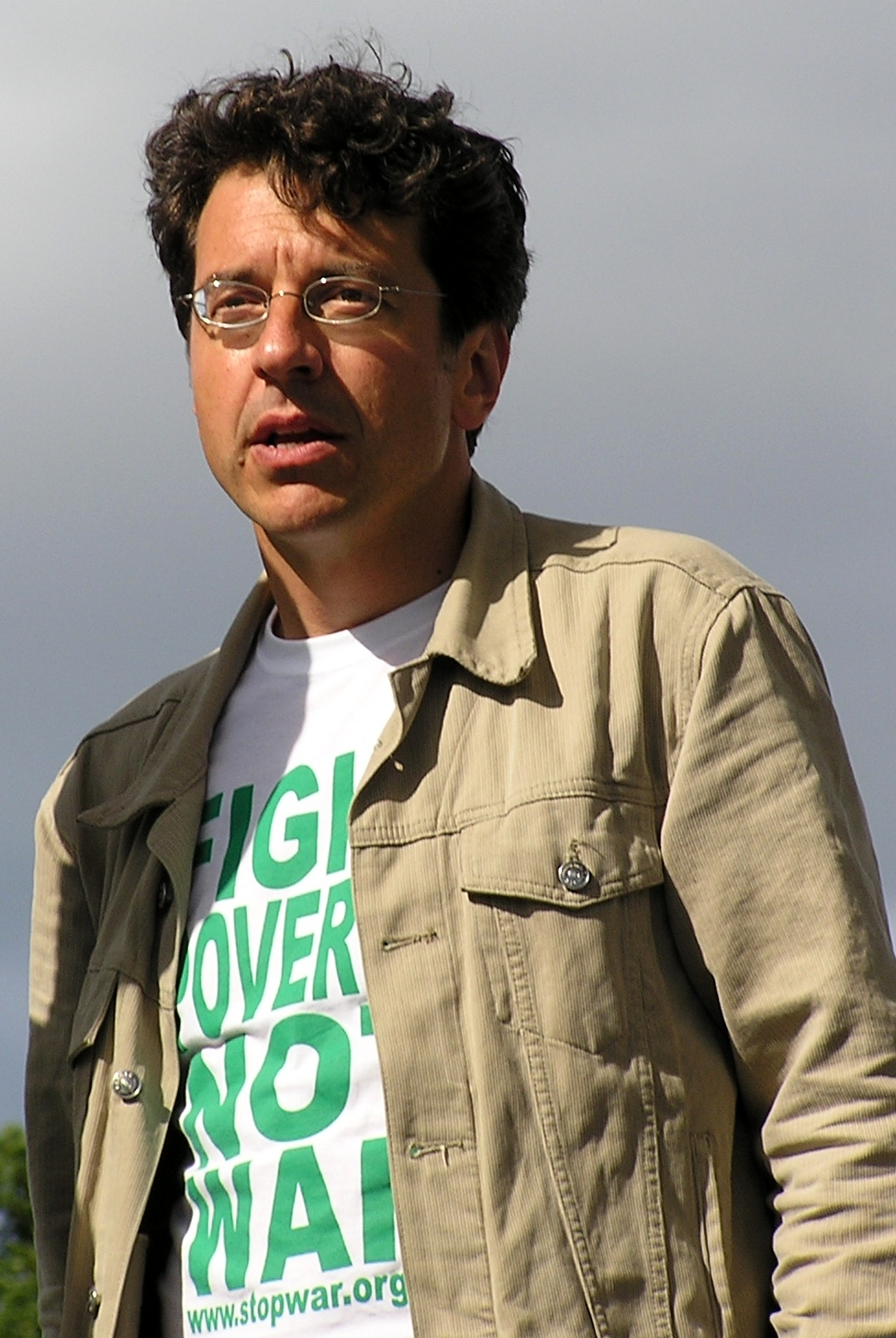 Picture of George Monbiot at the Make Povery History Rally, Stop the War stage